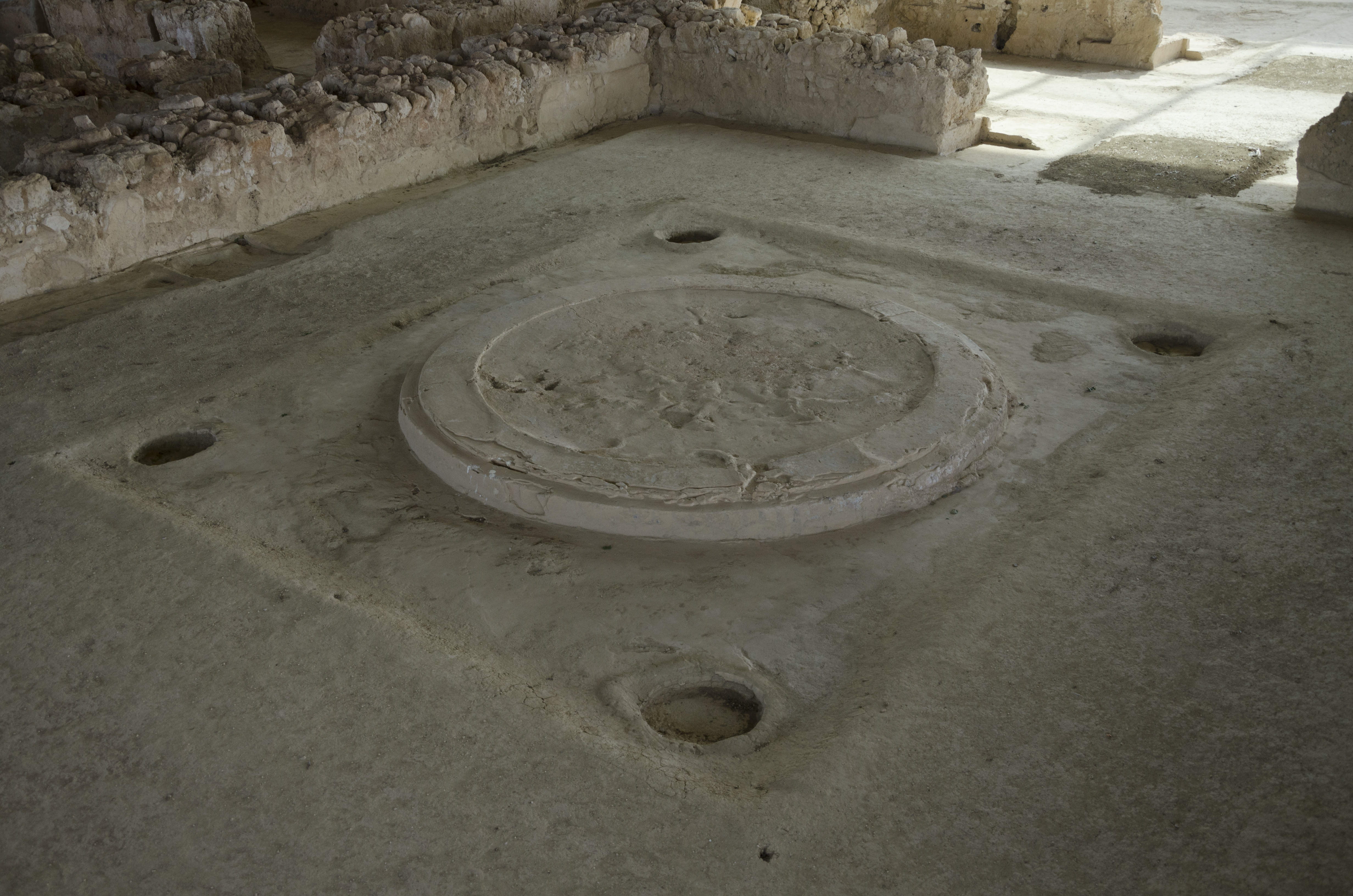 The base of the throne in the Palace of Nestor.